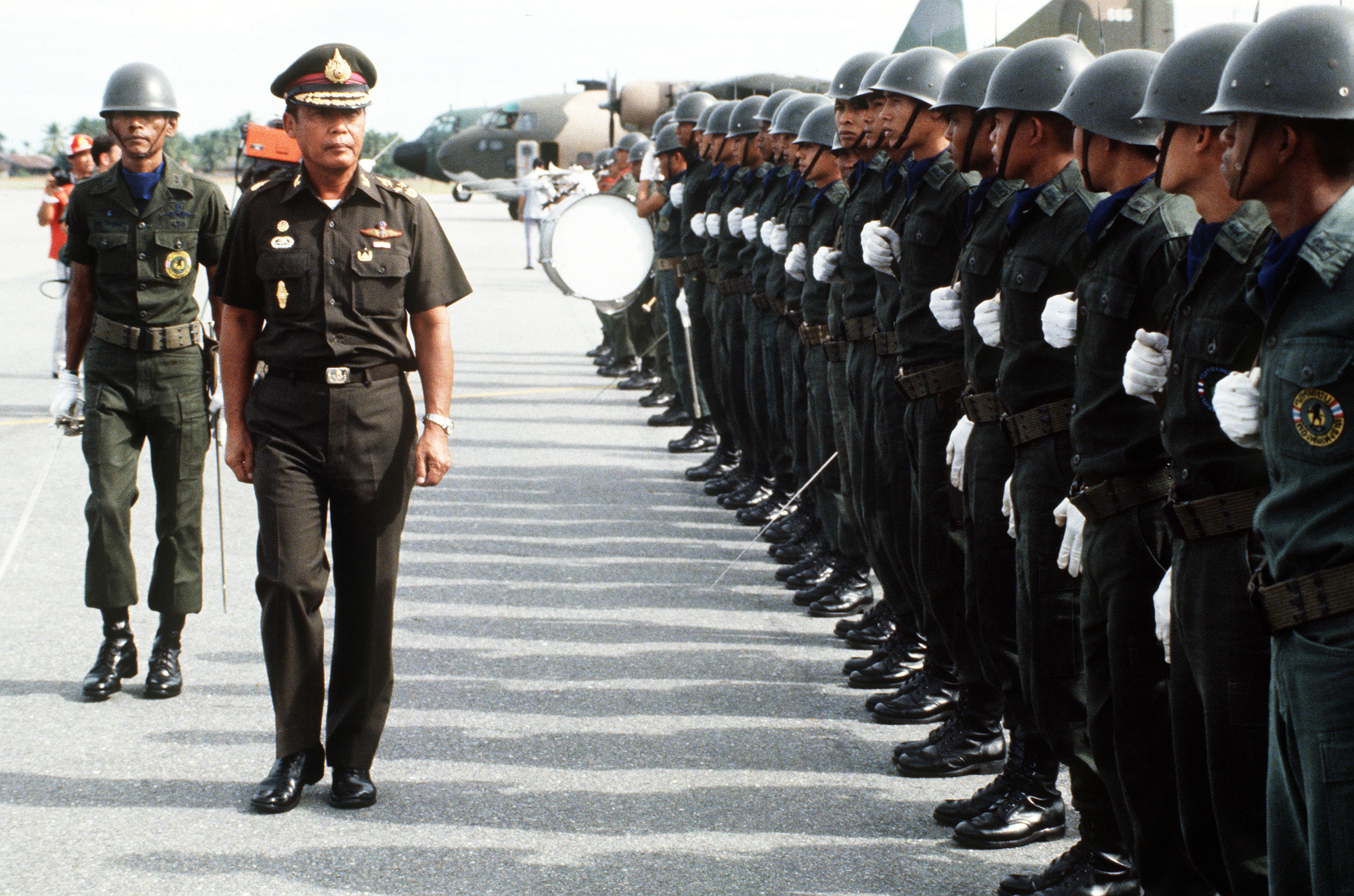 General Saiyud Kerdphol, Supreme Commander of the Royal Thai Armed Forces, reviews the troops at the opening ceremony for Operation MITRAPAB (Thai word for friendship), an annual parachute demonstration conducted by the Thai military and the Joint United States Military Advisory Group (JUSMAG). Proceeds from the event are used to build schools in Thailand.